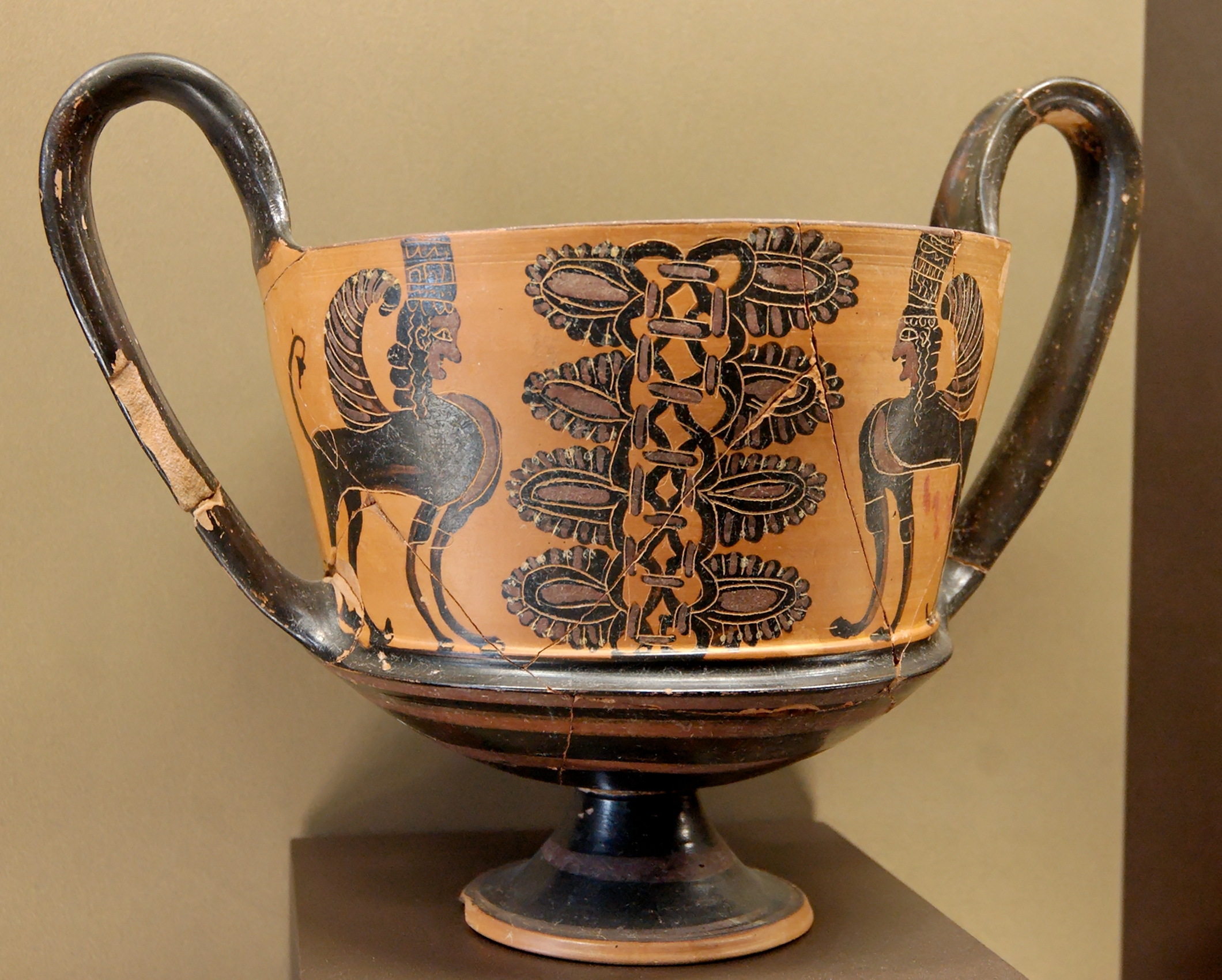 Sphinxes, side B from a Boeotian black-figure kantharos, ca. 550 BC.